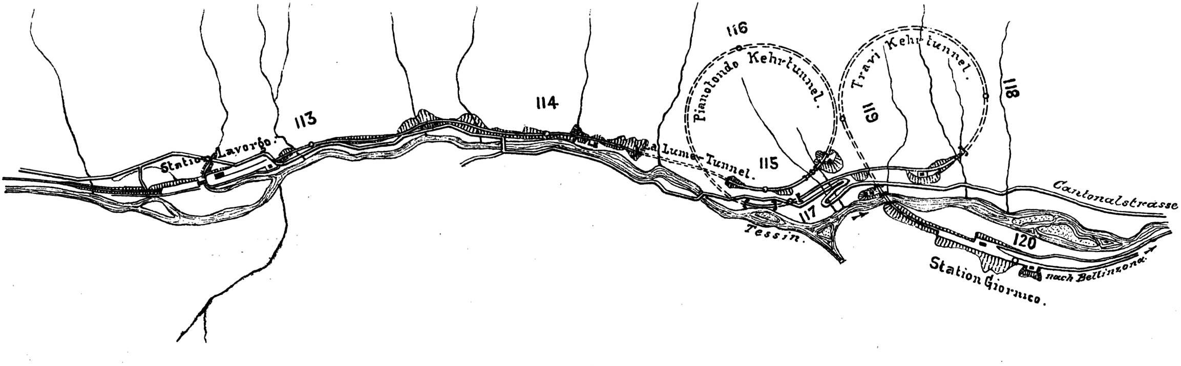 Outline of the Pianotondo and Travi spiral tunnels between Lavorgo station and former Giornico station (Giornico vecchio) on the southern ramp to the Gotthard tunnel from km 112 to 120.5.